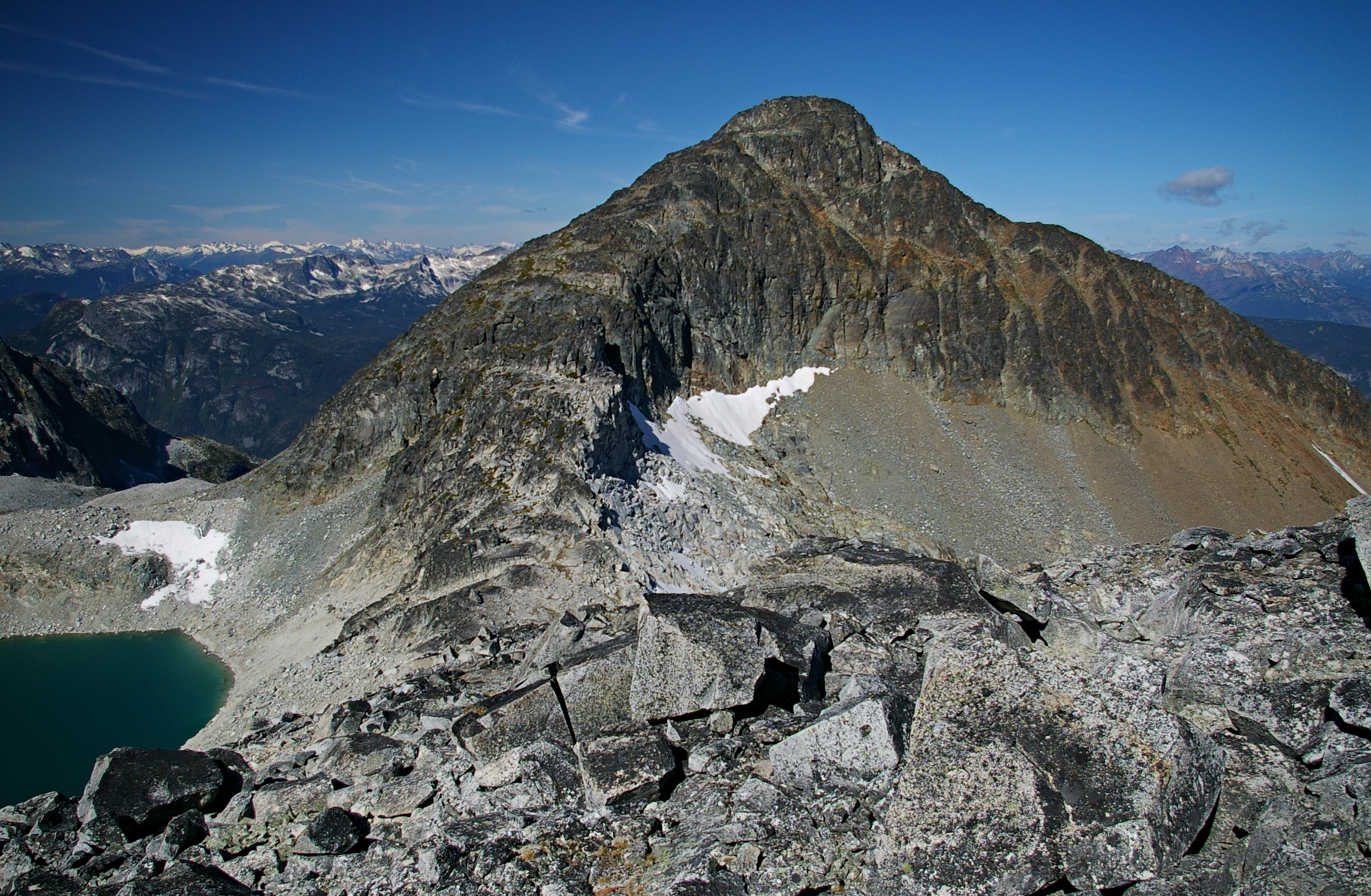 East aspect of Mt. Gardiner in Lillooet Ranges